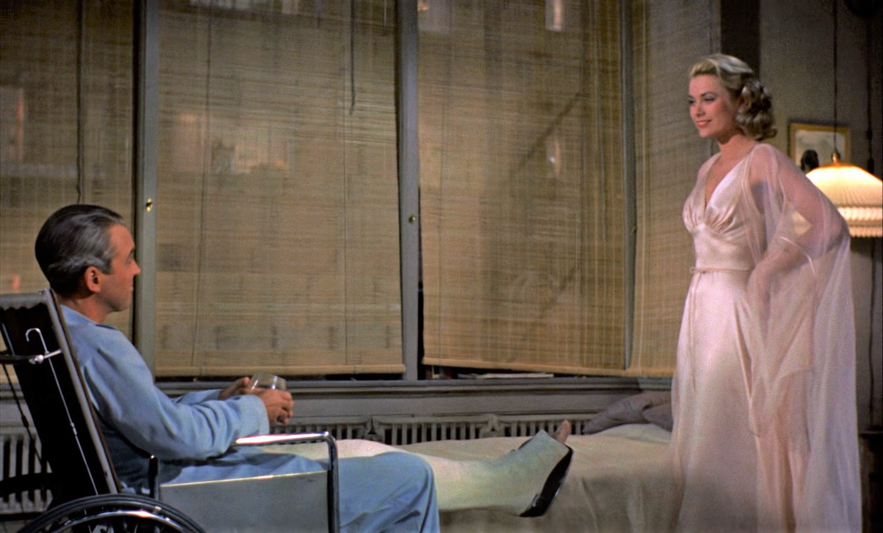 Cropped screenshot from the trailer for the film Rear Window